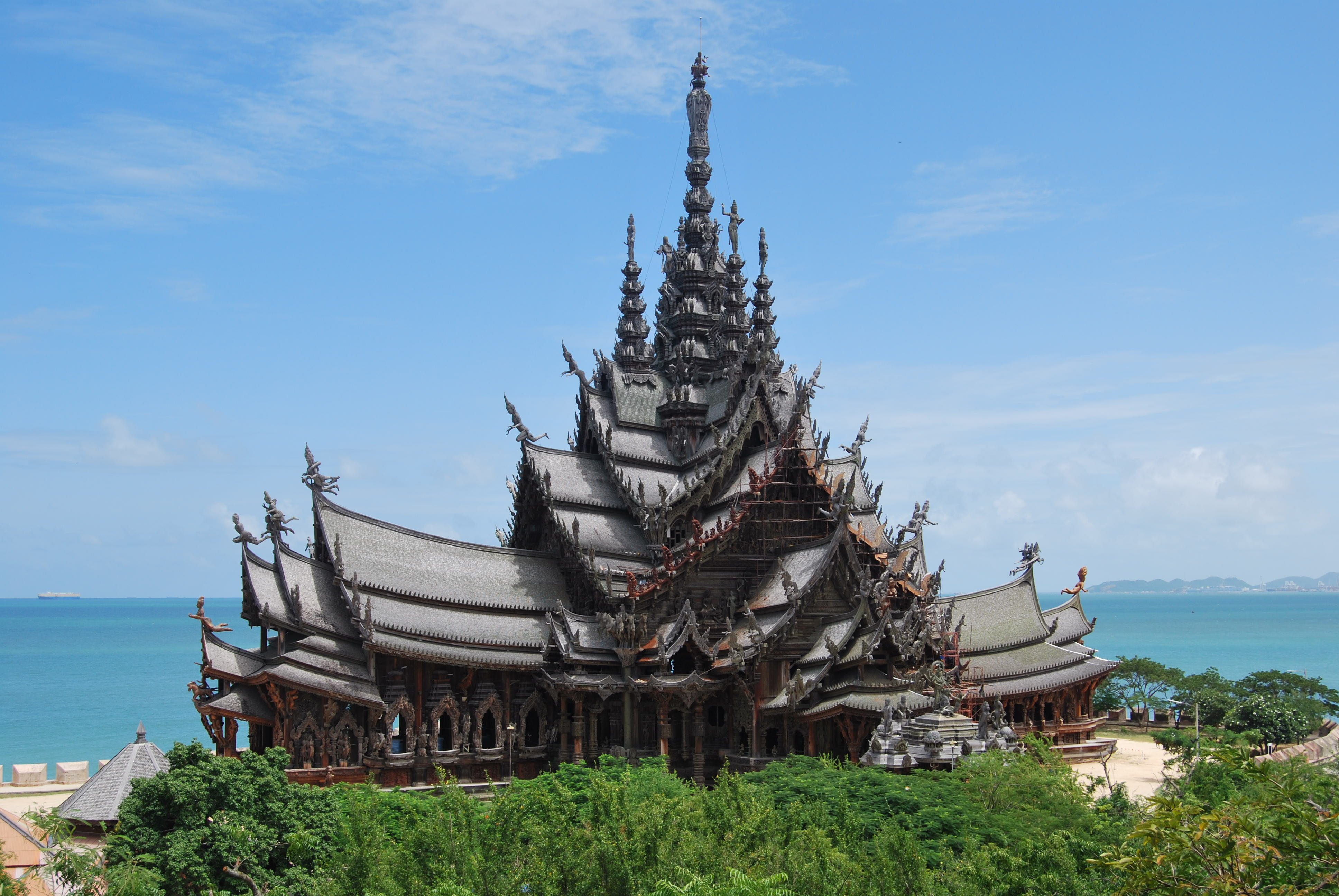 A overview picture of The Sanctuary of Truth in Pattaya, Thailand